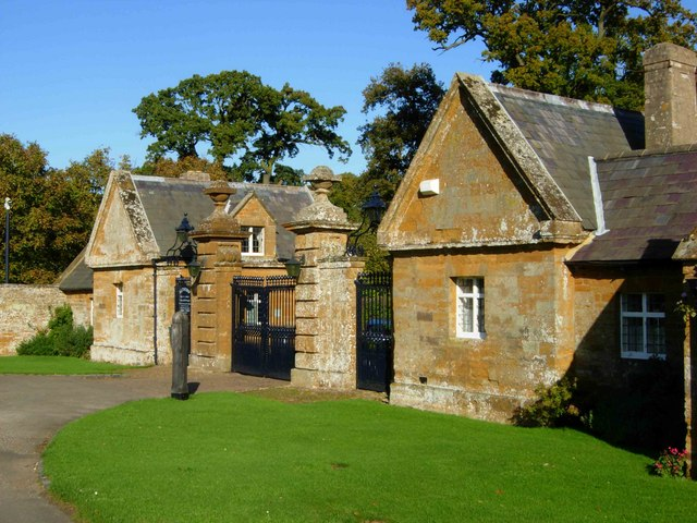 Althorp Park Gateway Gates to the ancestral home of the Spencer family. The park and house are open to the public during the summer months.